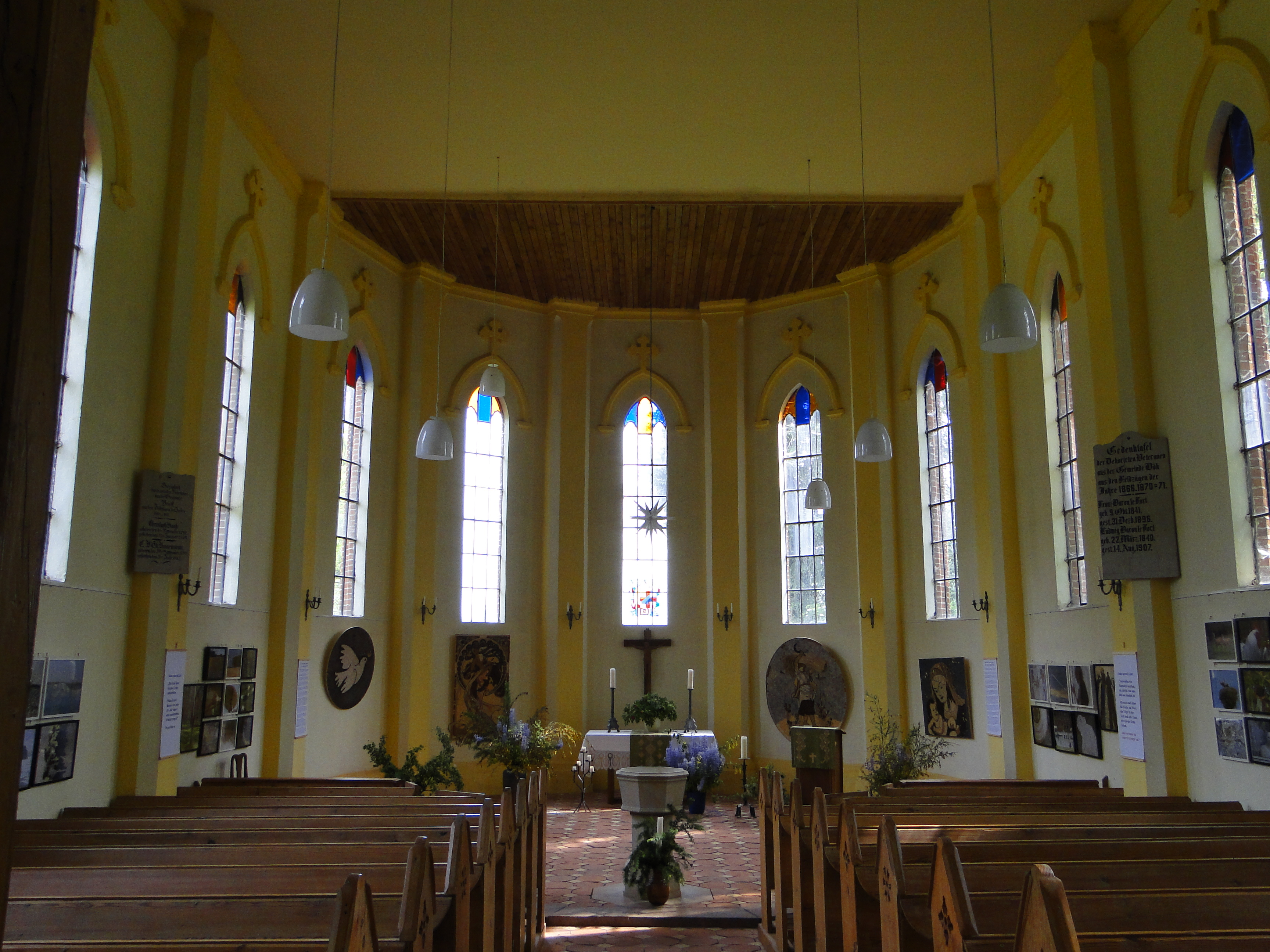 Church St. Johannis in Boek, district Mecklenburgische Seenplatte, Mecklenburg-Vorpommern, Germany